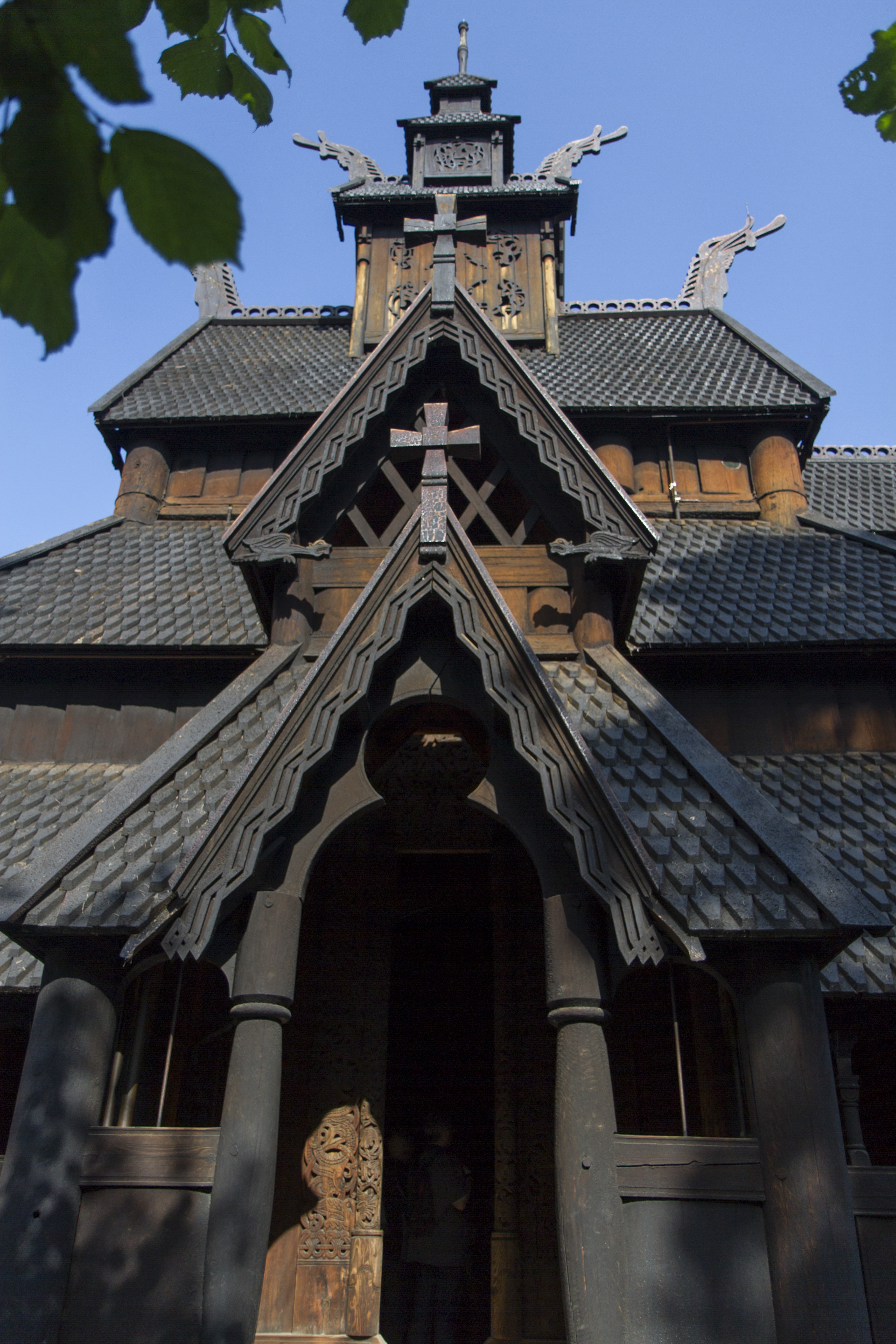 Gol stavkirke in Oslo